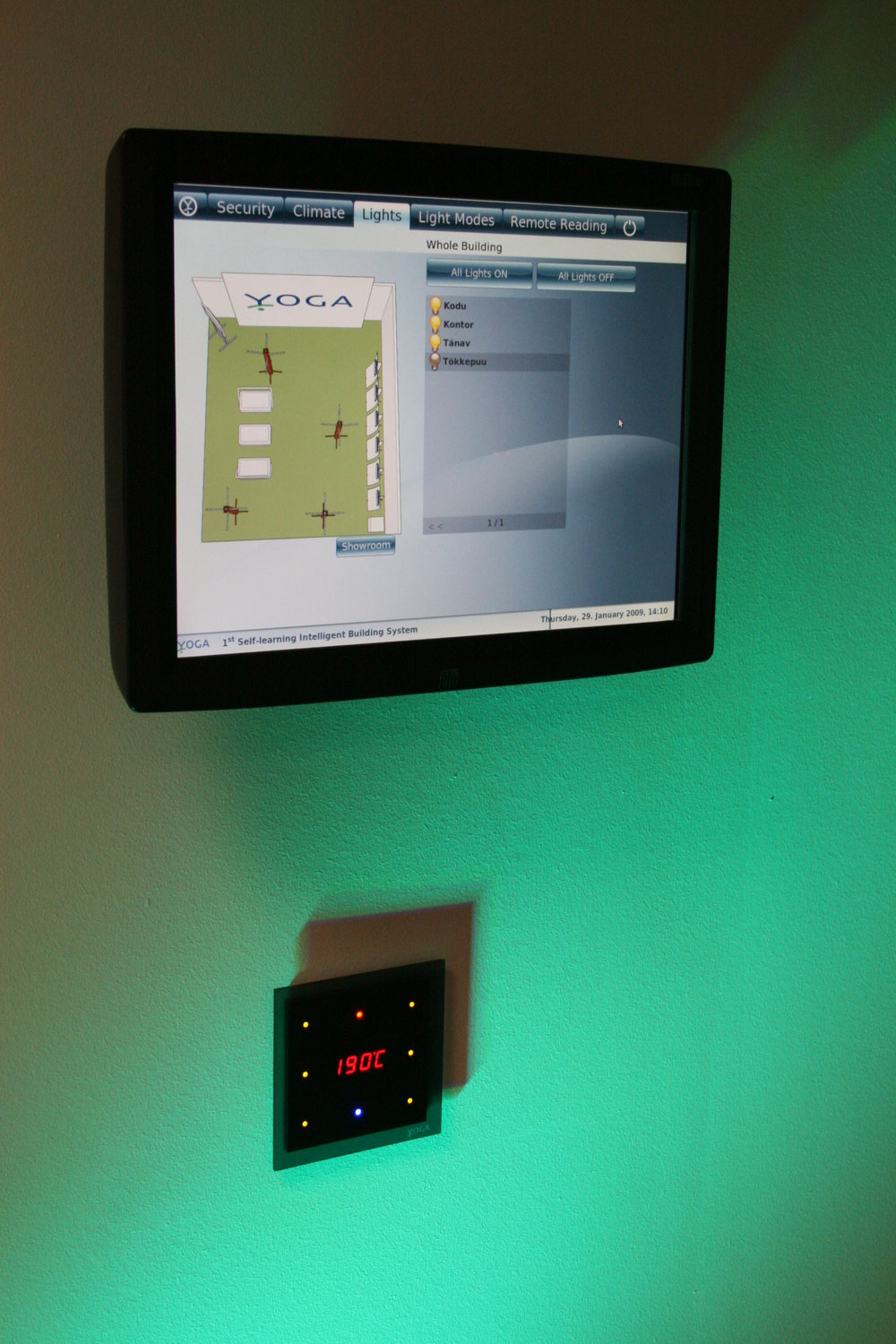 At the opening of (press release in Estonian only) the Estonian ICT Demo Center in Ülemiste City. I was there to set up and demonstrate the Yoga Intelligent Building system which is represented in the Center. This picture is CC-licensed and re-published by others